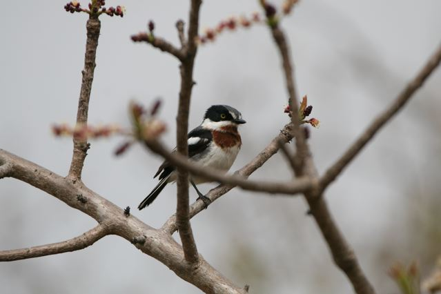 Chinspot Batis (Batis molitor)